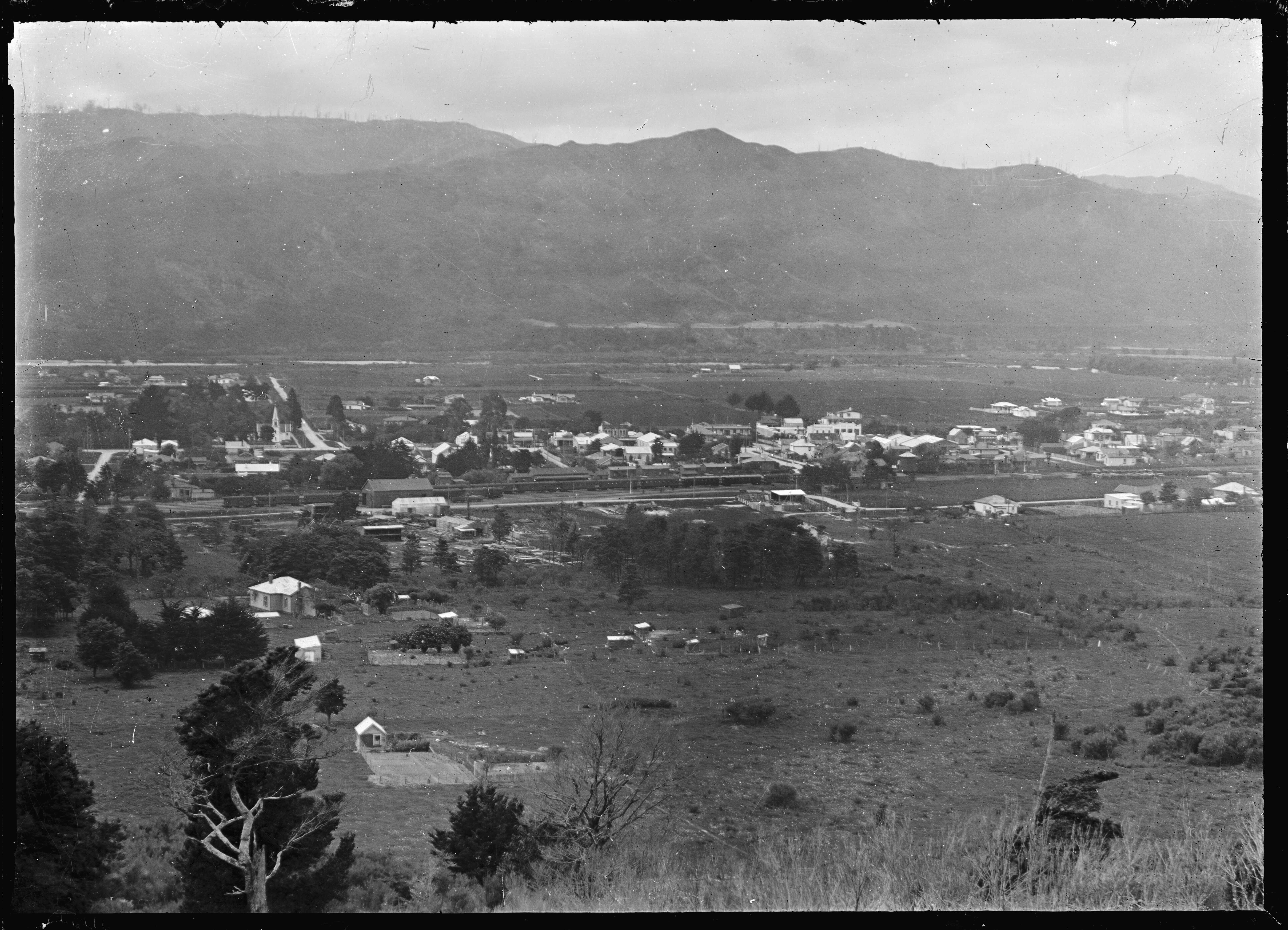 View of Upper Hutt from Wallaceville Hill in 1924. Photograph taken by Albert Percy Godber.